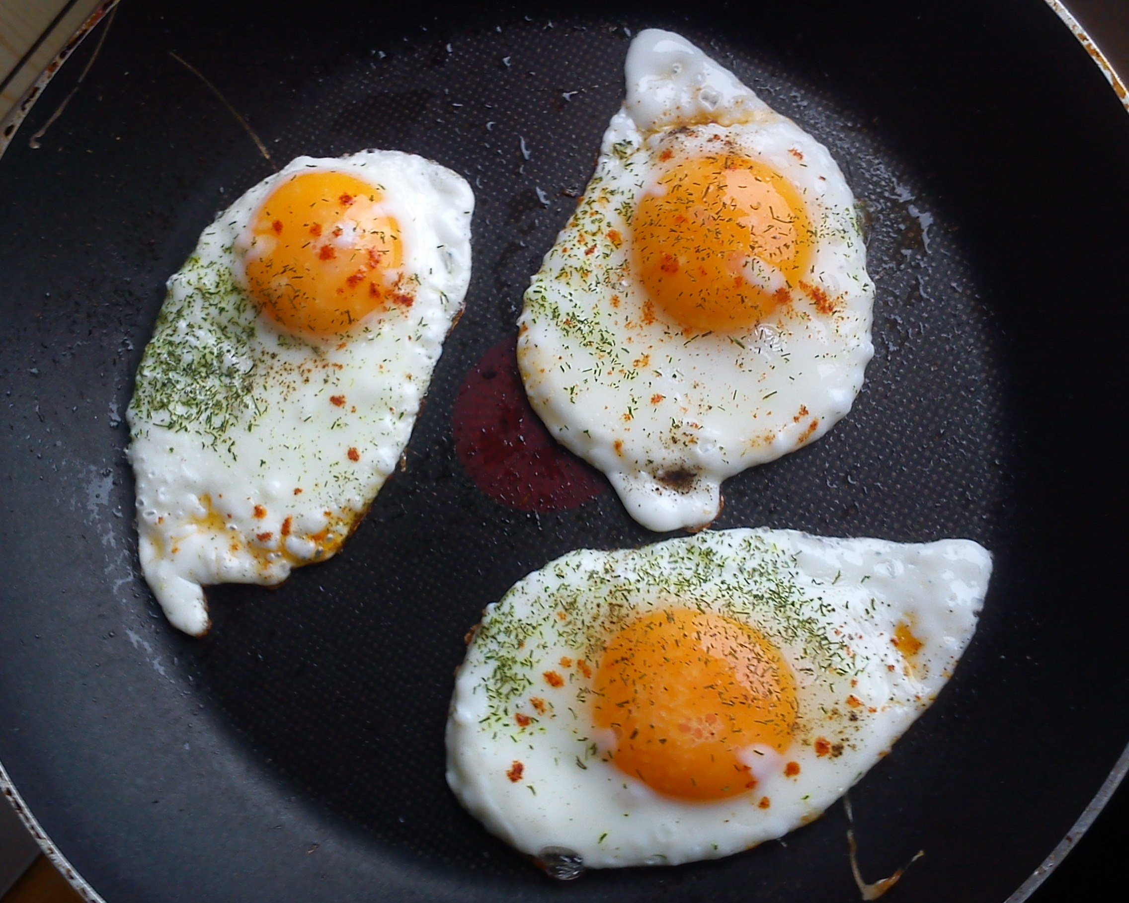 Fried eggs.